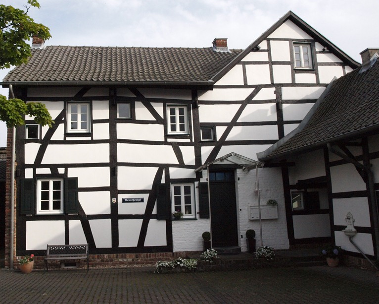 Historical timber-framed farmhouse "Keuschenhof" from 1716